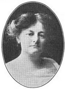 Middle-aged white woman, head and shoulders portrait in oval frame.